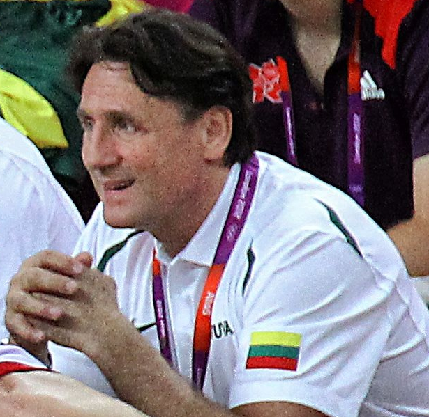 Photo of Valdemaras Chomičius during the 2012 Summer Olympics in London as a Lithuania men's national basketball team member.